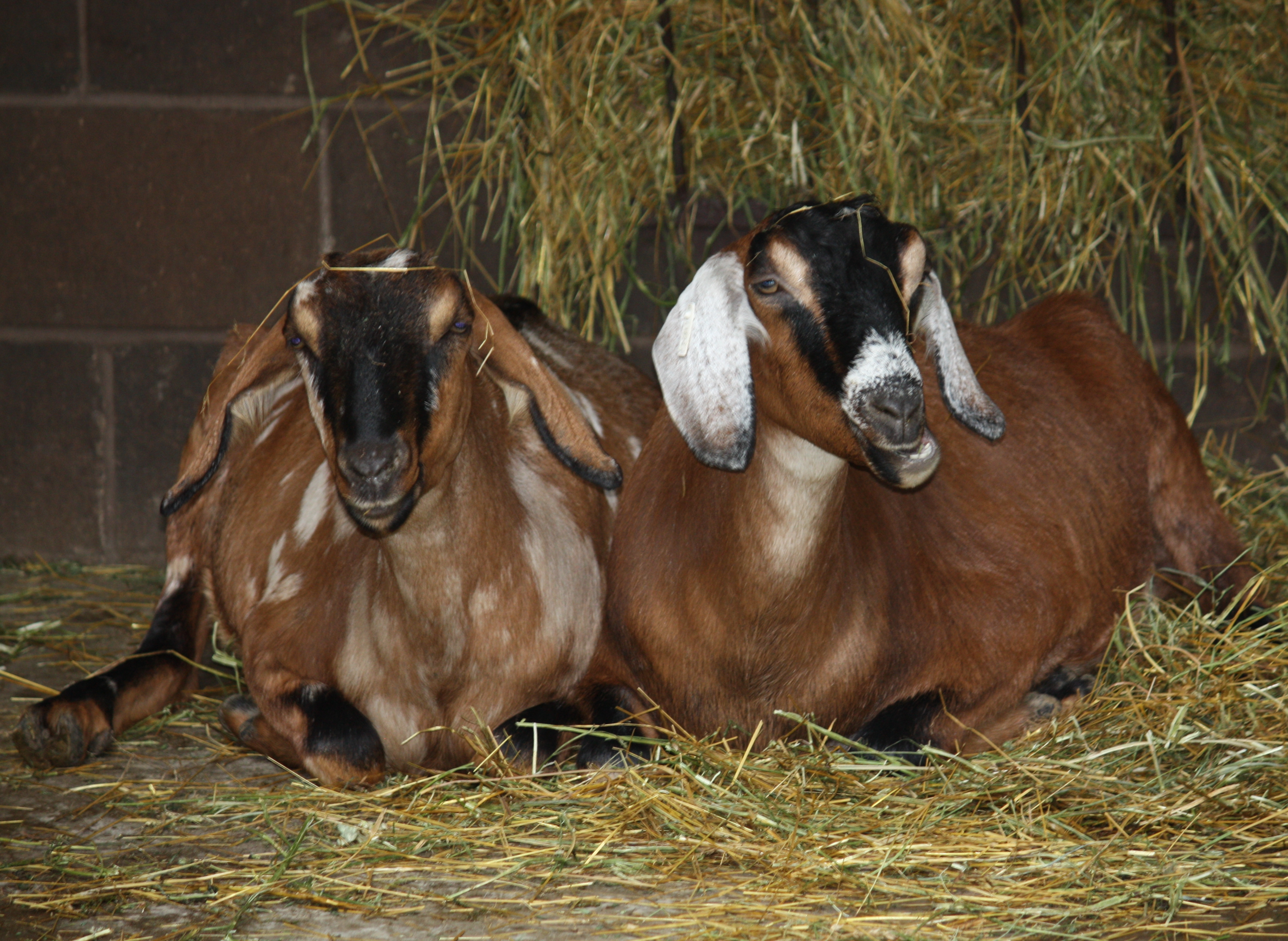 Nubian Goat in Binder Park Zoo in Battle Creek, Michigan